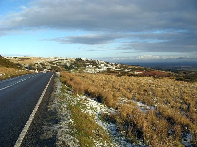 The A4117 road over Titterstone Clee Hill in Shropshire, England after a light December snowfall. This road rises to an altitude of around 380 metres above sea level.